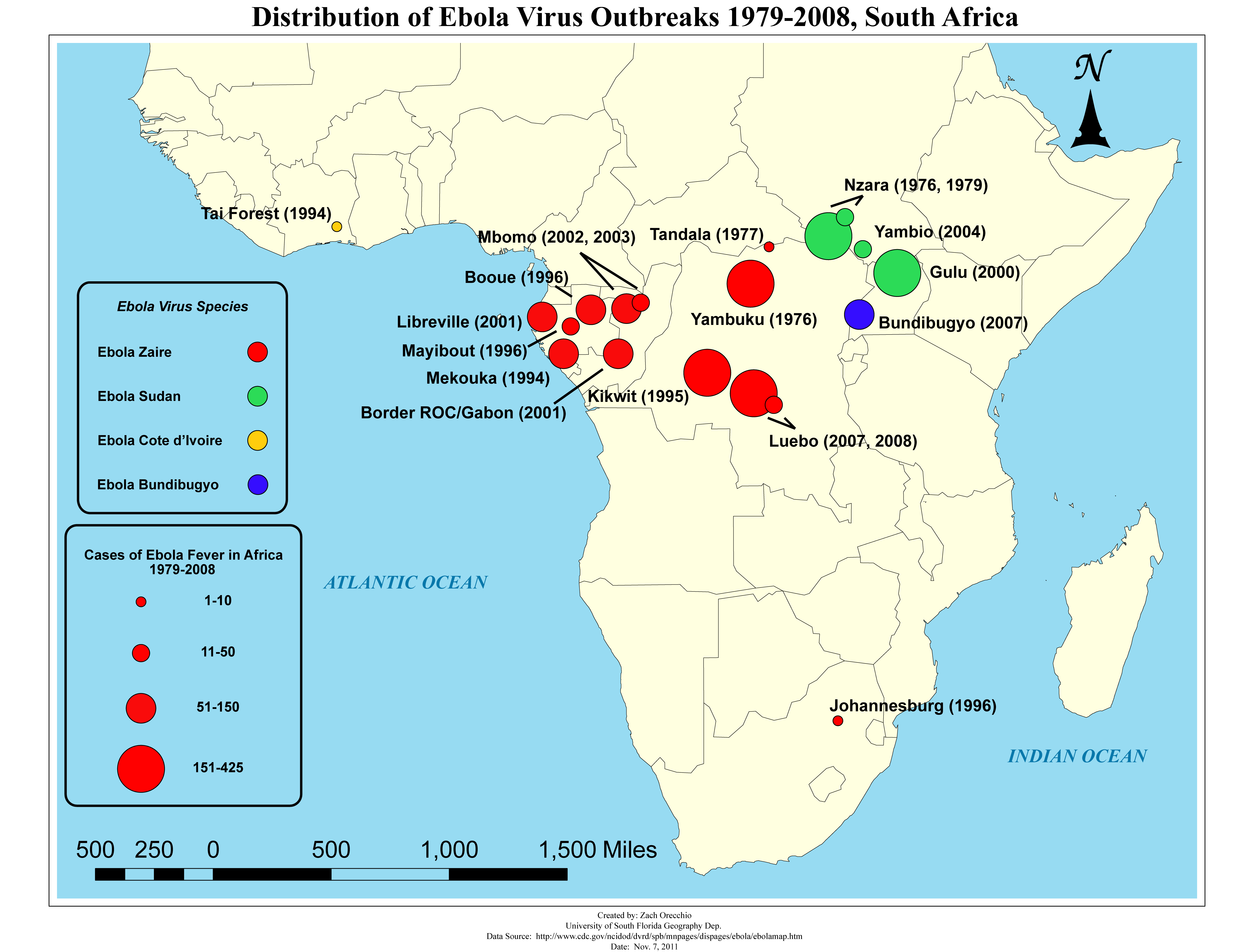 Map of recorded outbreaks of the Ebola virus by strain and confirmed contractions.